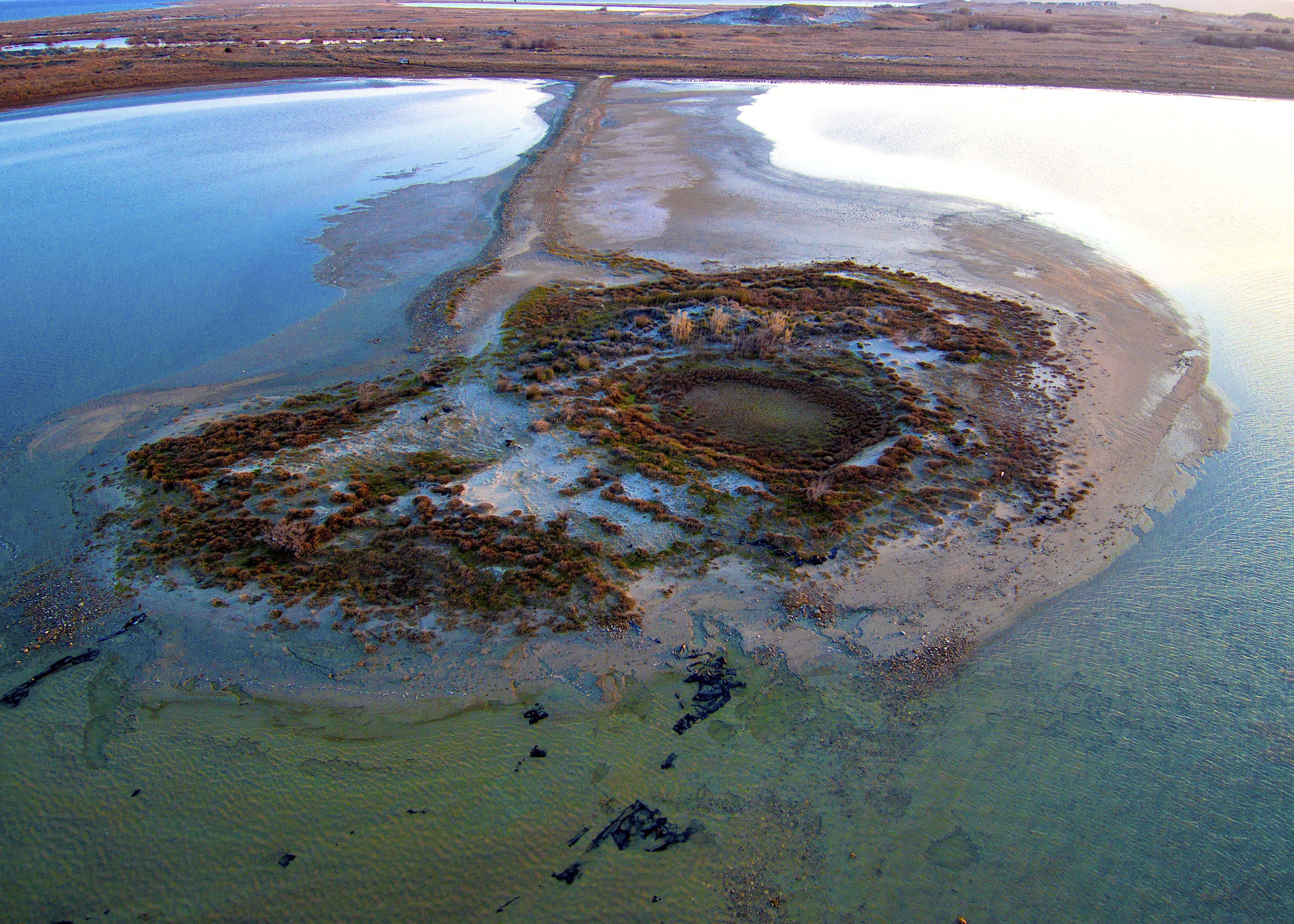 Airview of Alyki wetland, Lemnos This is a photography of Natura 2000 protected area with ID GR4110006